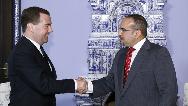 Dmitry Medvedev meets with First Deputy Prime Minister, Crown Prince Salman bin Hamad bin Isa Al Khalifa of the Kingdom of Bahrain